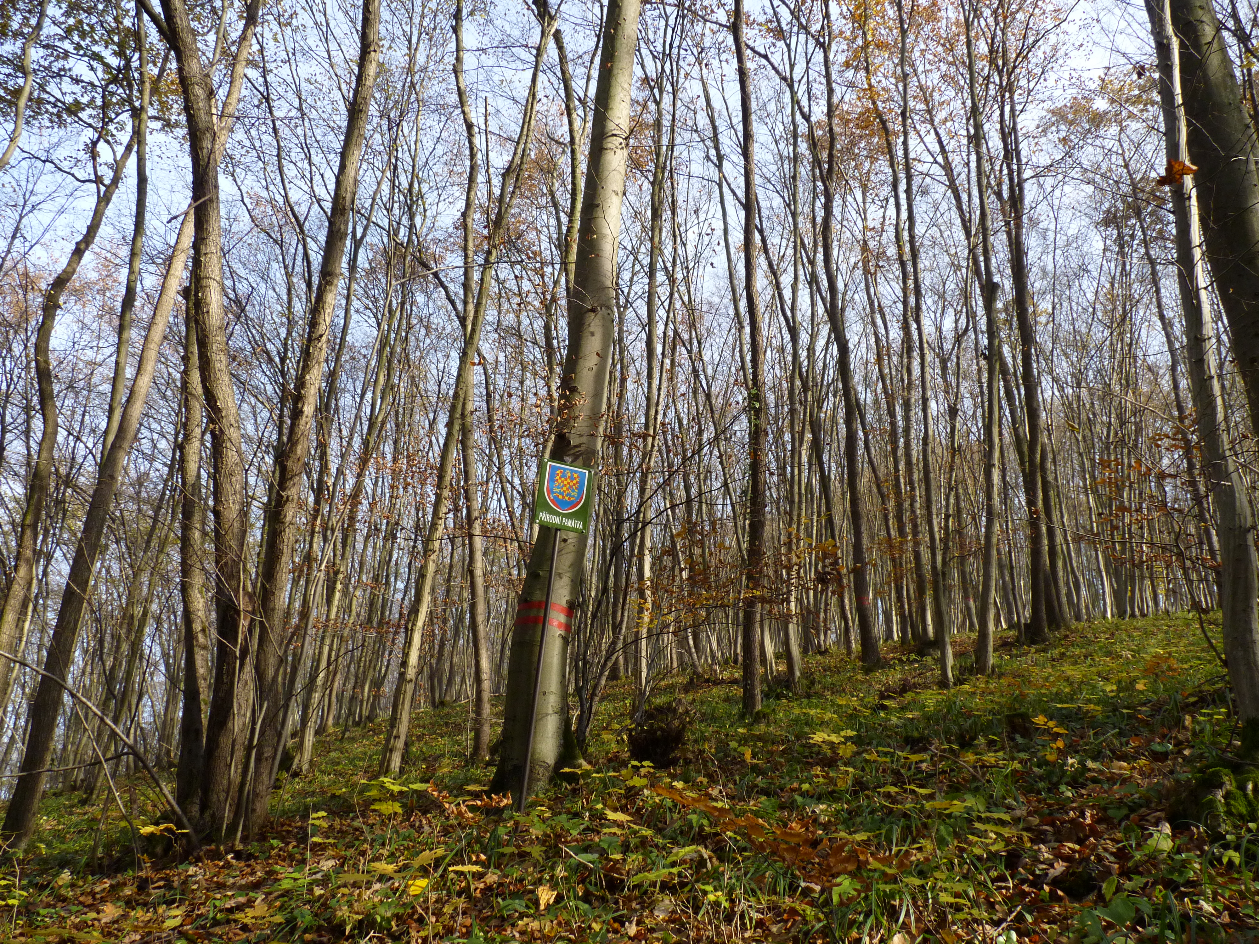 Natural monument "U Staré Vápenice", Brno-Country District, South Moravian Region, Czech Republic